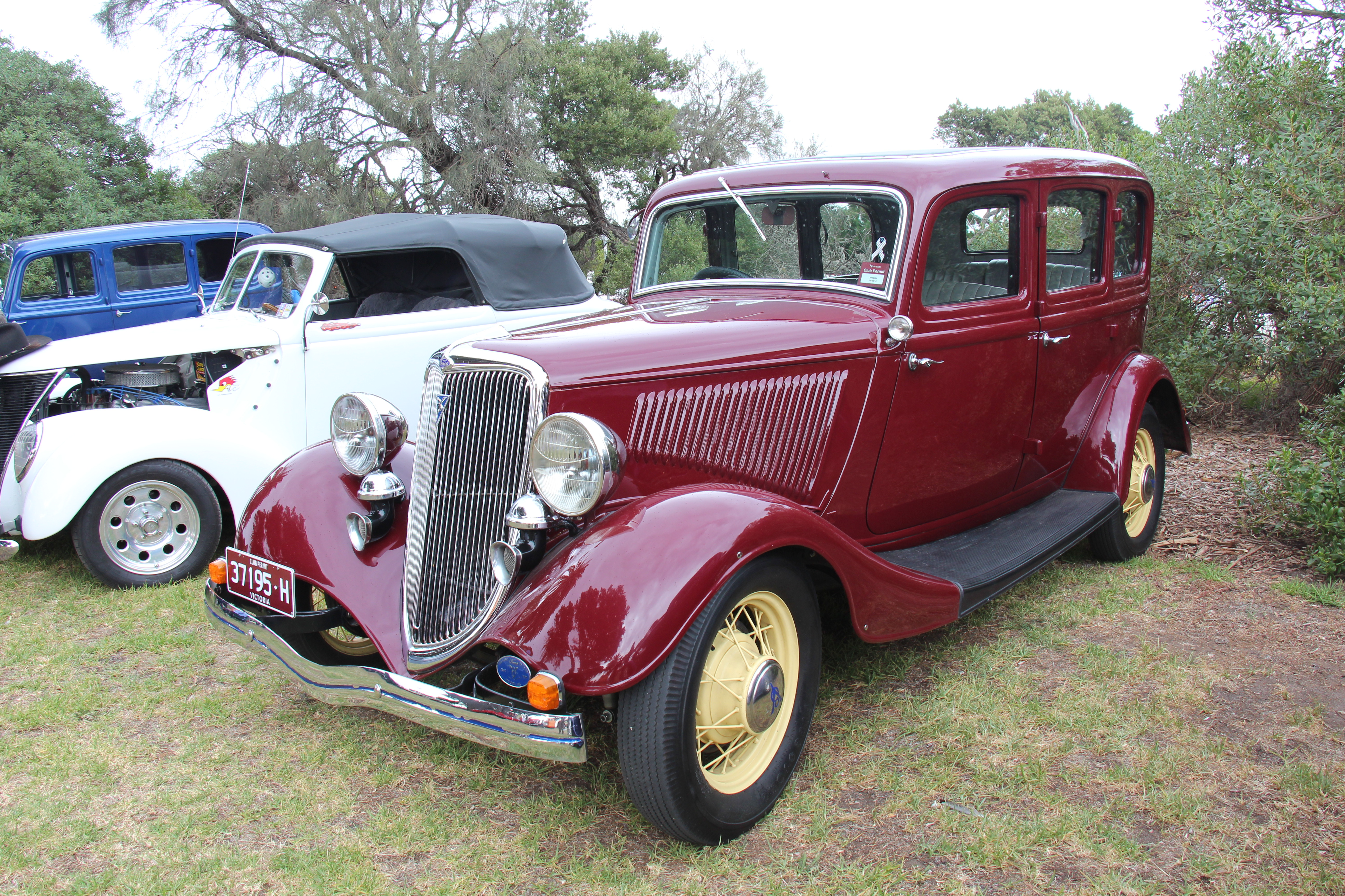 Like the 1932 and 33 Ford, the 1934 car was still available as the 201 cu in 4 cylinder Model B (last year) and also the 221 cu in Flathead V8, now the Model 40A. The Model B was built from 1932 to 34, the V8 tho was the Model 18 in 1932, Model 40 in 1933 and 40A in 1934. Built on the same platform, the two models shared body, chassis and trim. The 1934 car was very similar car to 1933 but the grille was now pointed and flatter with a wider surround. Straight hood louvres rather than the curved of 1933. Again available in Standard or Deluxe and in a wide variety of body styles. The 34 Ford was not only built in the US but also in many countries including Australia. 1934 was the year the worlds first coupe utility was available, designed and built in Australia based on the Ford Model 40A. These days, the Roadster and Coupe are the most popular for building street rods making original cars quite rare. Engine; 50hp 201 cu in 4 cyl (Model B) or 85hp 221 cu in flathead V8 (Model 40A)